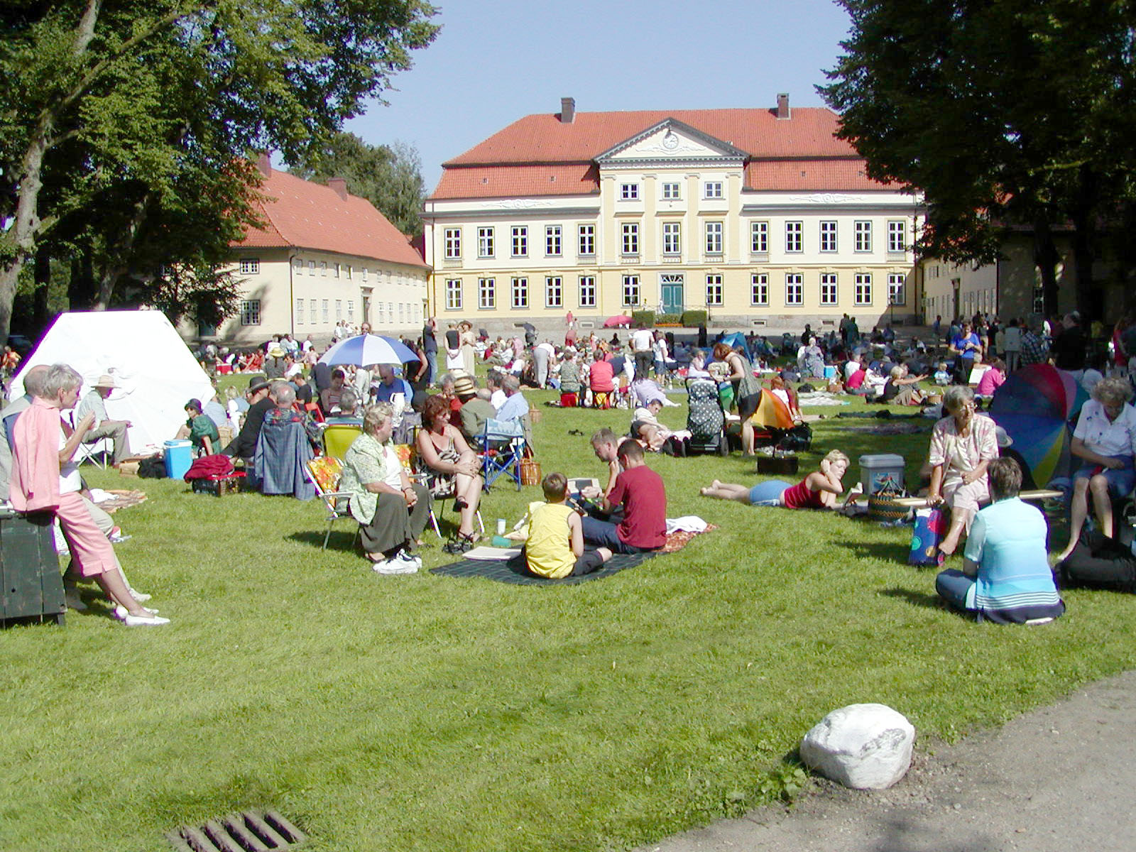 "Musikfest" in Emkendorf at "Schleswig-Holstein Musik Festival", picnic